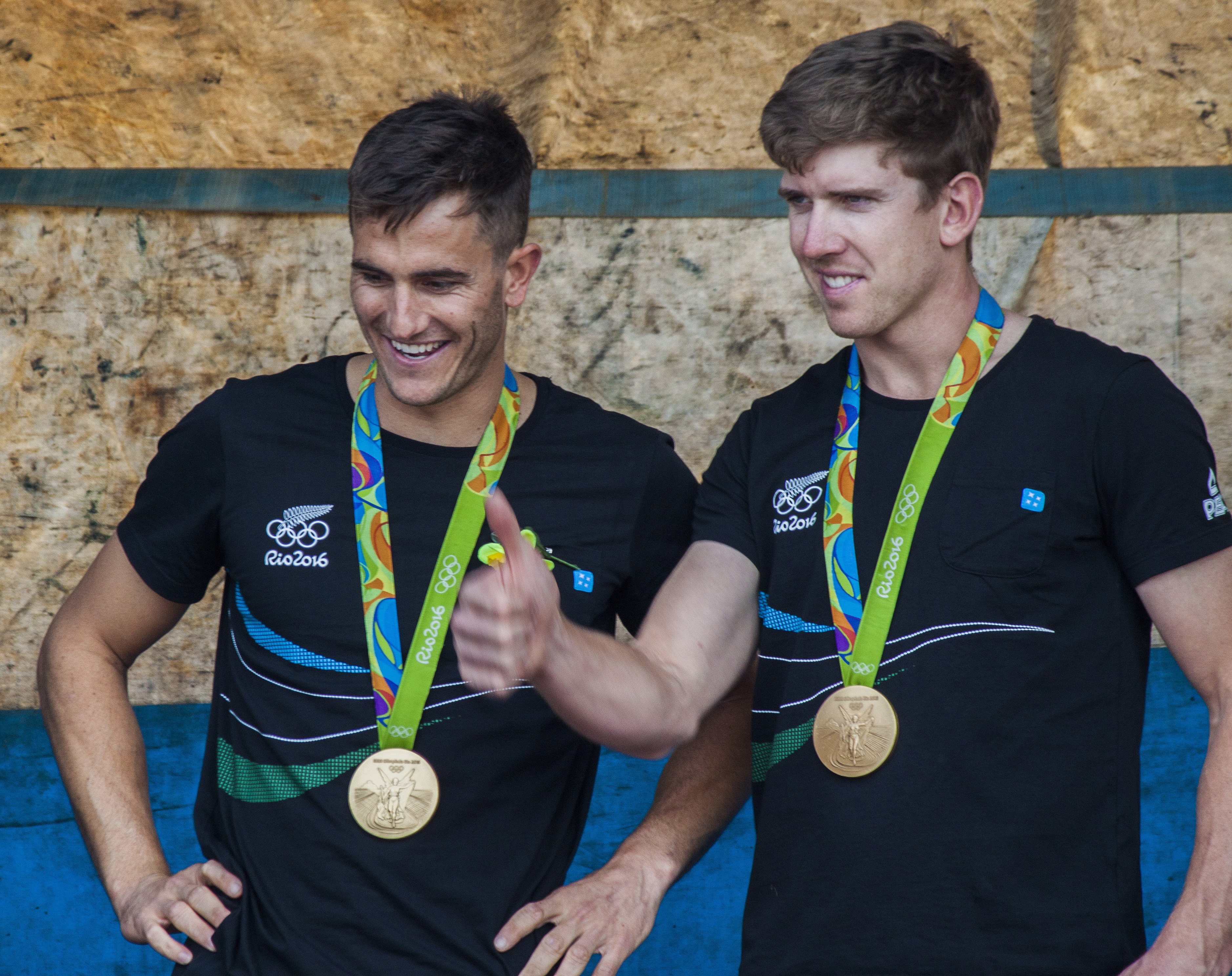 Peter Burling (right) and long time team mate Blair Tuke in Kerikeri, 2016.